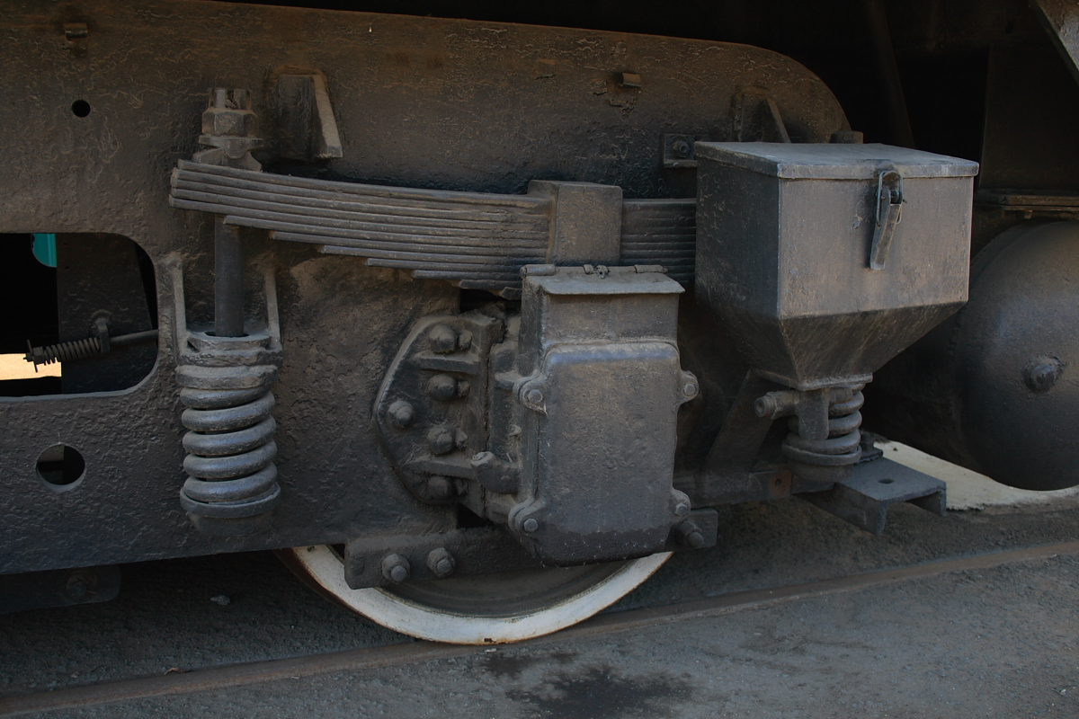 Industrial electric locomotive V ("В") series bogie